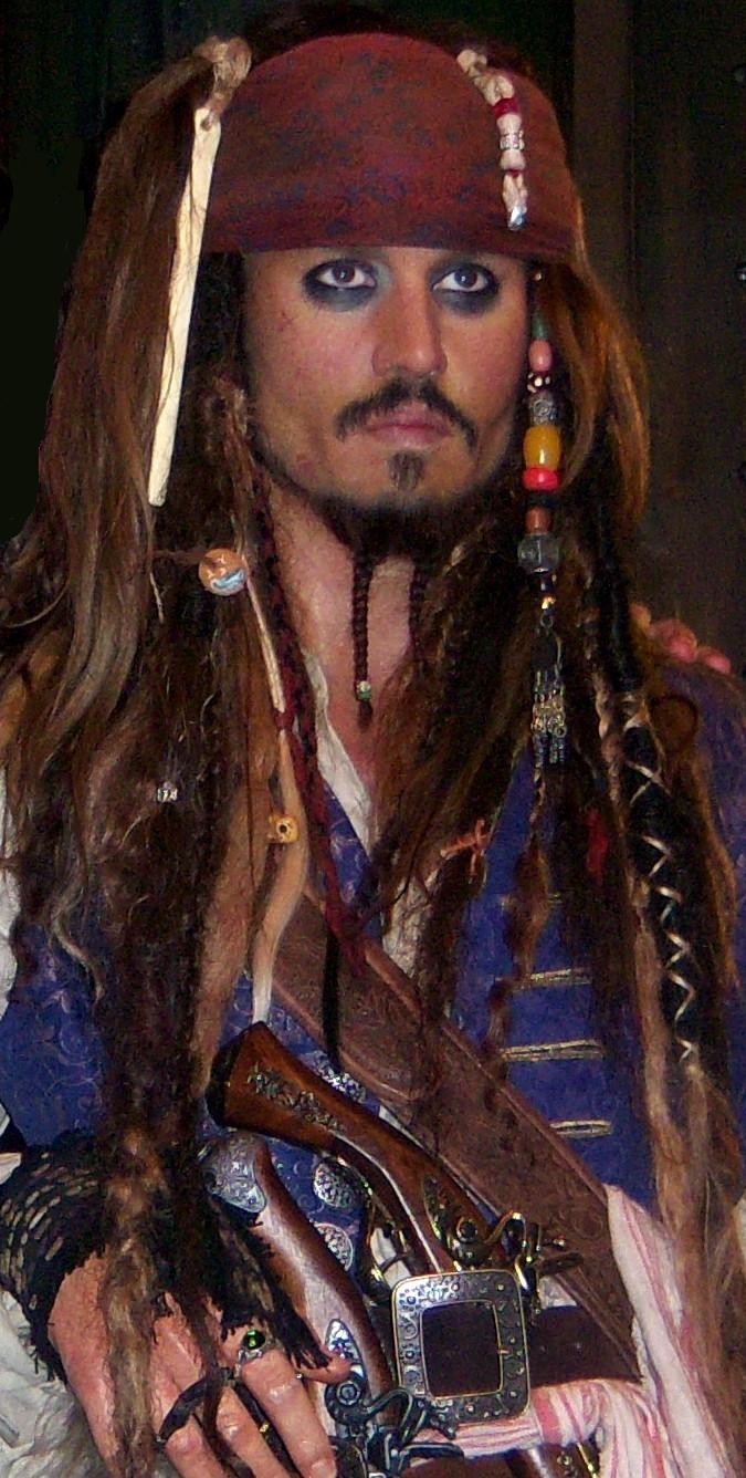 Jack Sparrow wax - Madame Toussaud - London - 2011